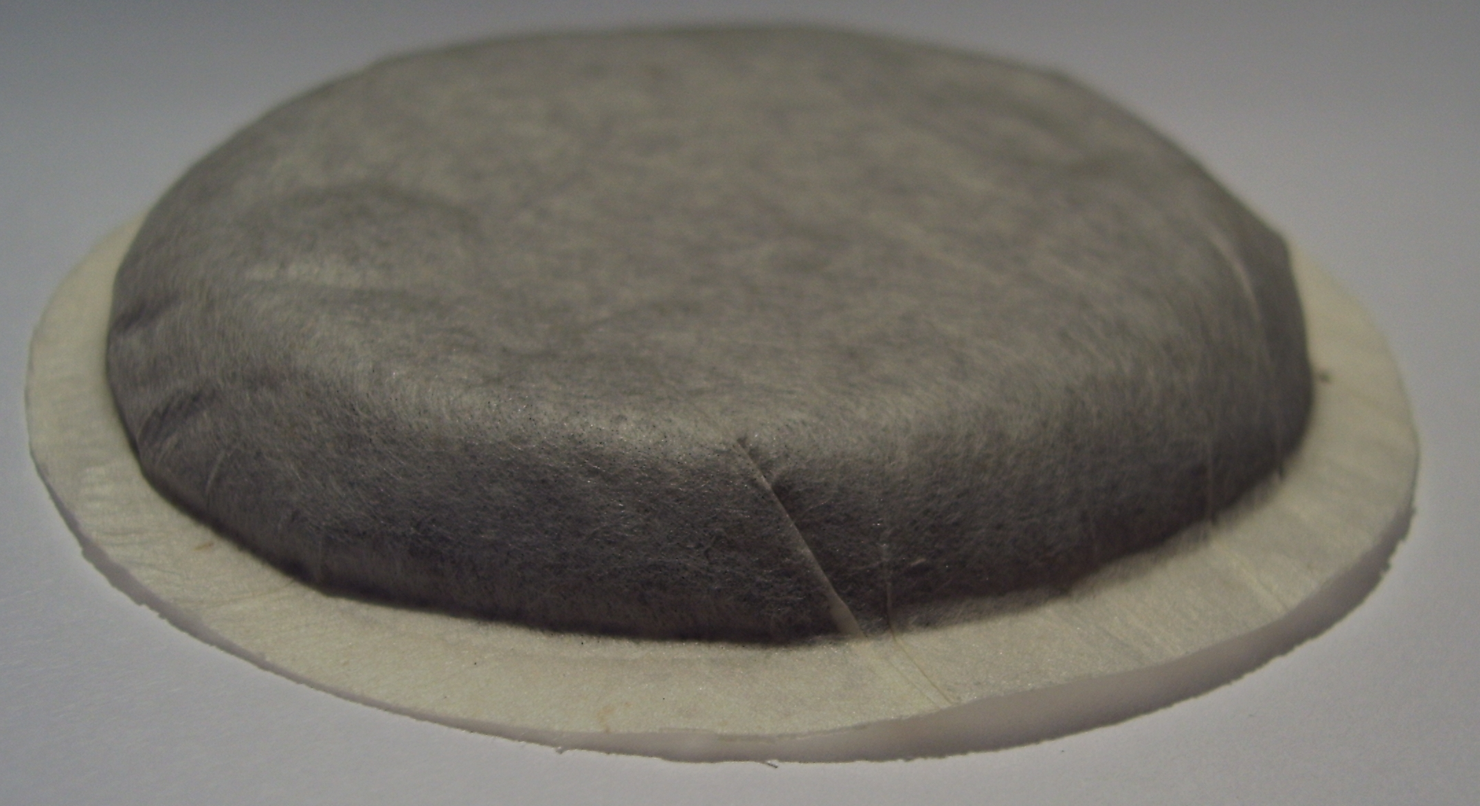 Kaffeepad Senseo, Unterseite ist oben, coffee pad upside down